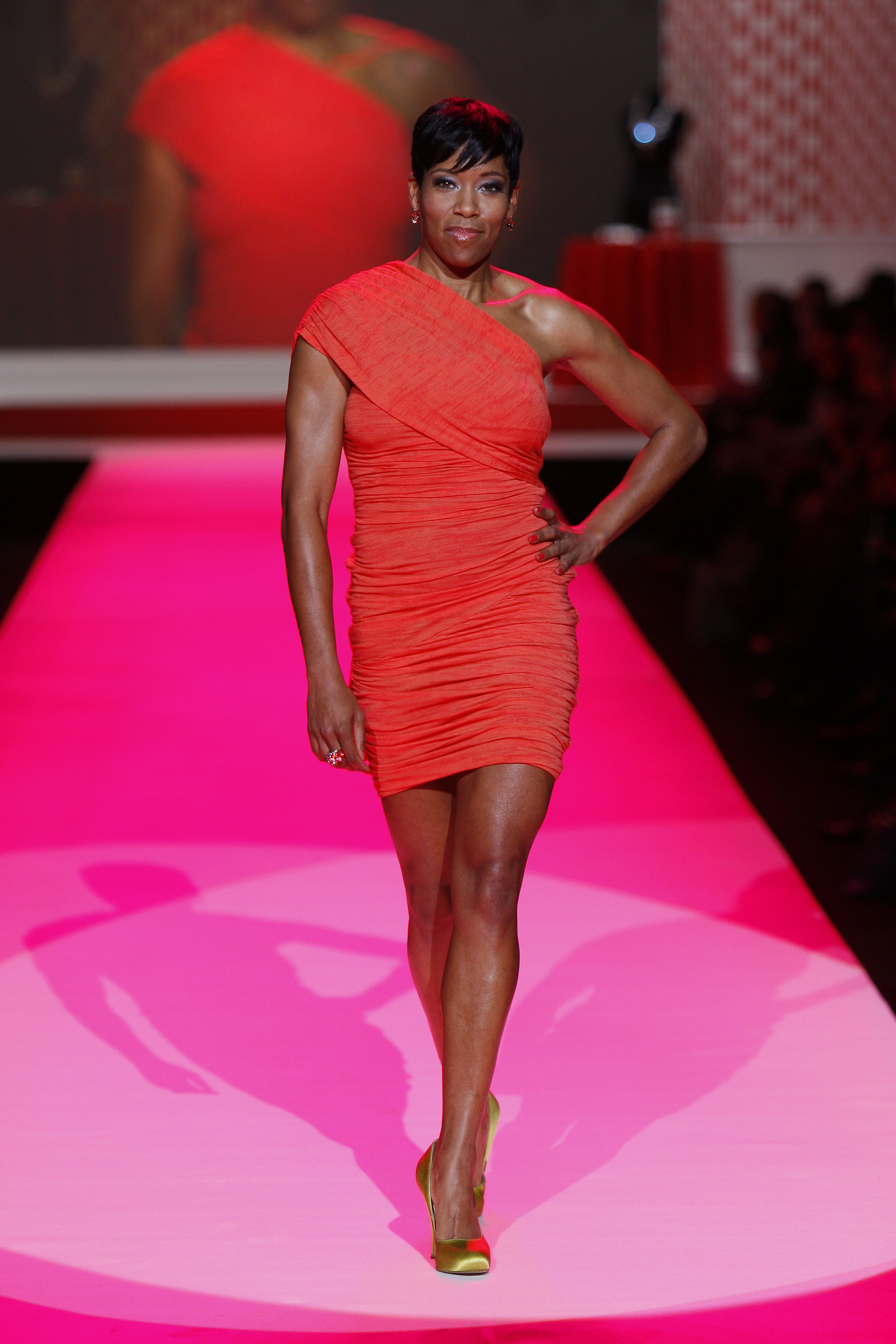 Regina King in Tracy Reese at The Heart Truth's Red Dress Collection 2010